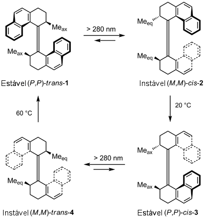 Rotary cycle of the first-generation light-driven rotary molecular motor, Feringa 1999